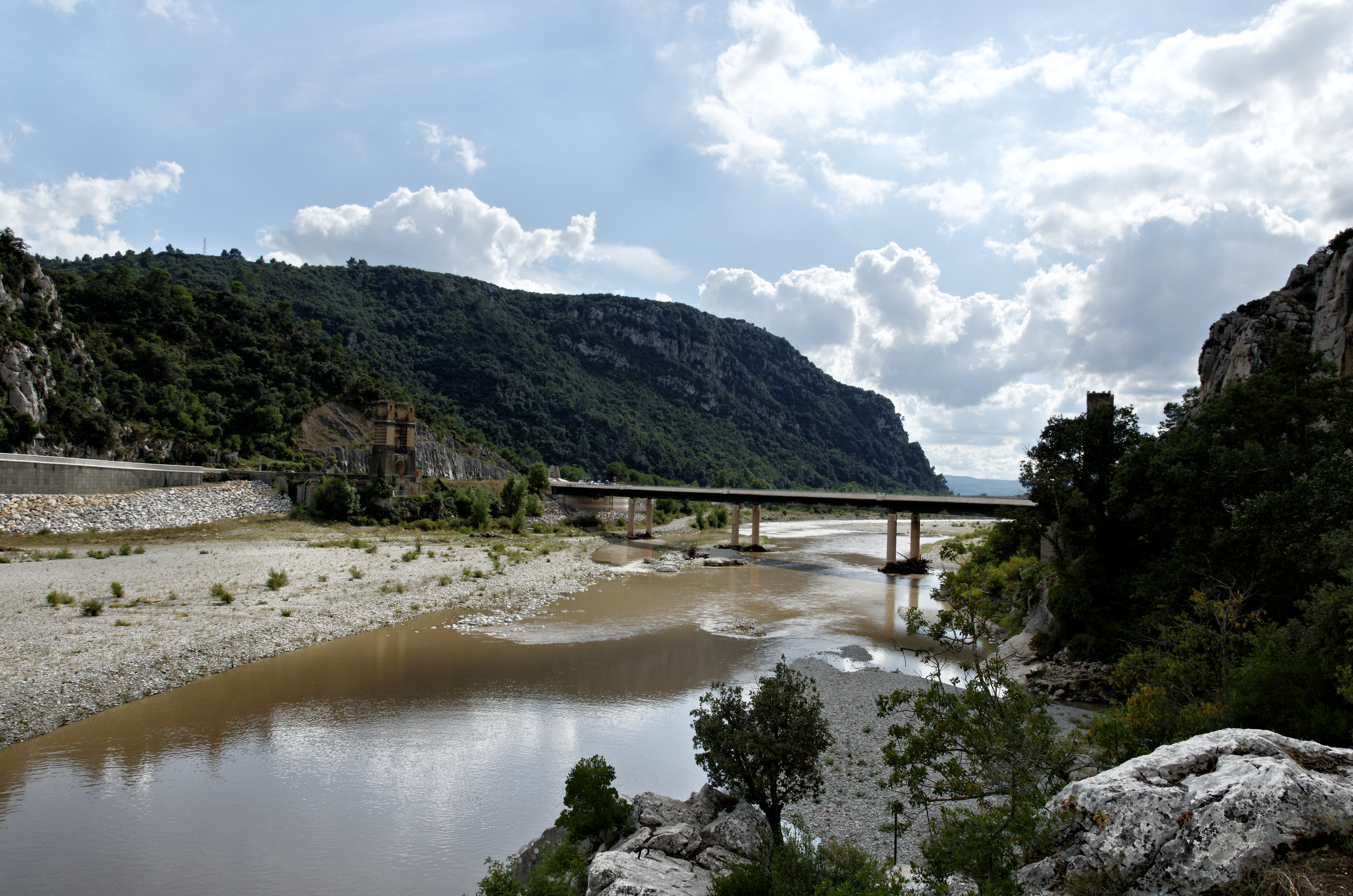 The bridge of Mirabeau, Vaucluse (France)